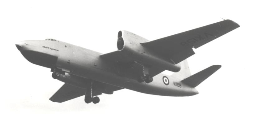 Short Sperrin with Gyron engine in lower port nacelle at Farnborough SBAC Show